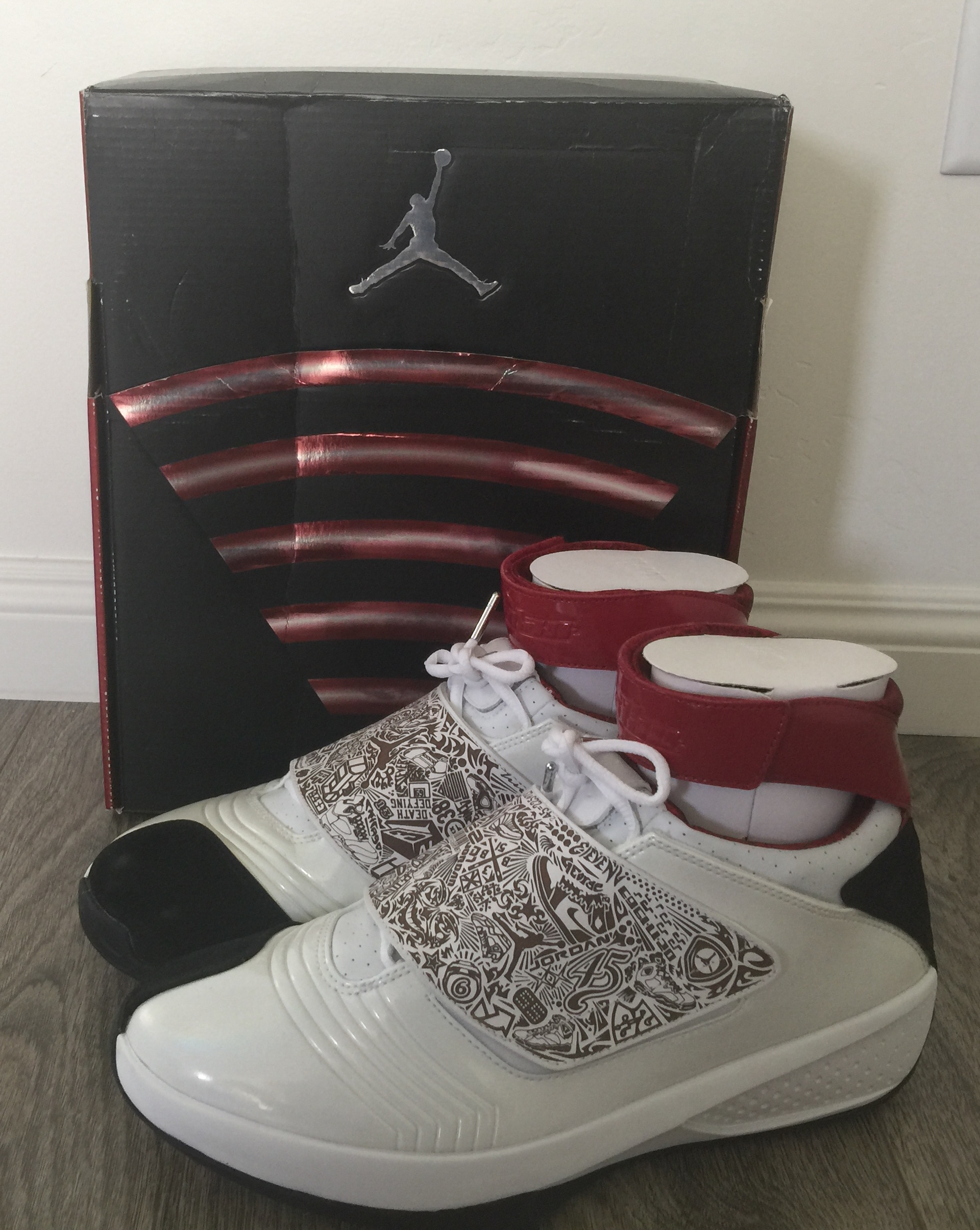 Nike Air Jordan XX, (Bulls Colorway)